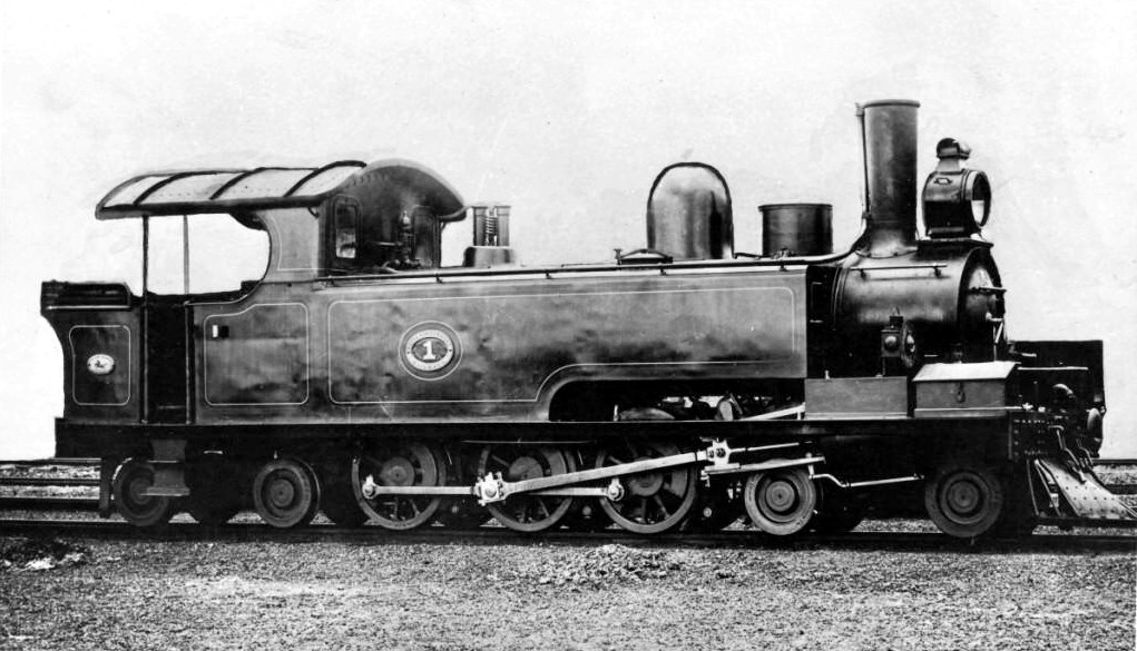 Natal Government Railways Class H 4-6-4T no. 1, later South African Railways Class C2 no. 86